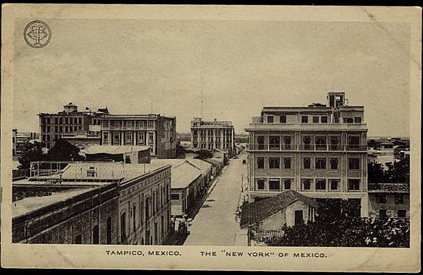 Is an old early 1900s postal, I need help to know about copyrigth, I don't know what is the seal, I found it in my old files